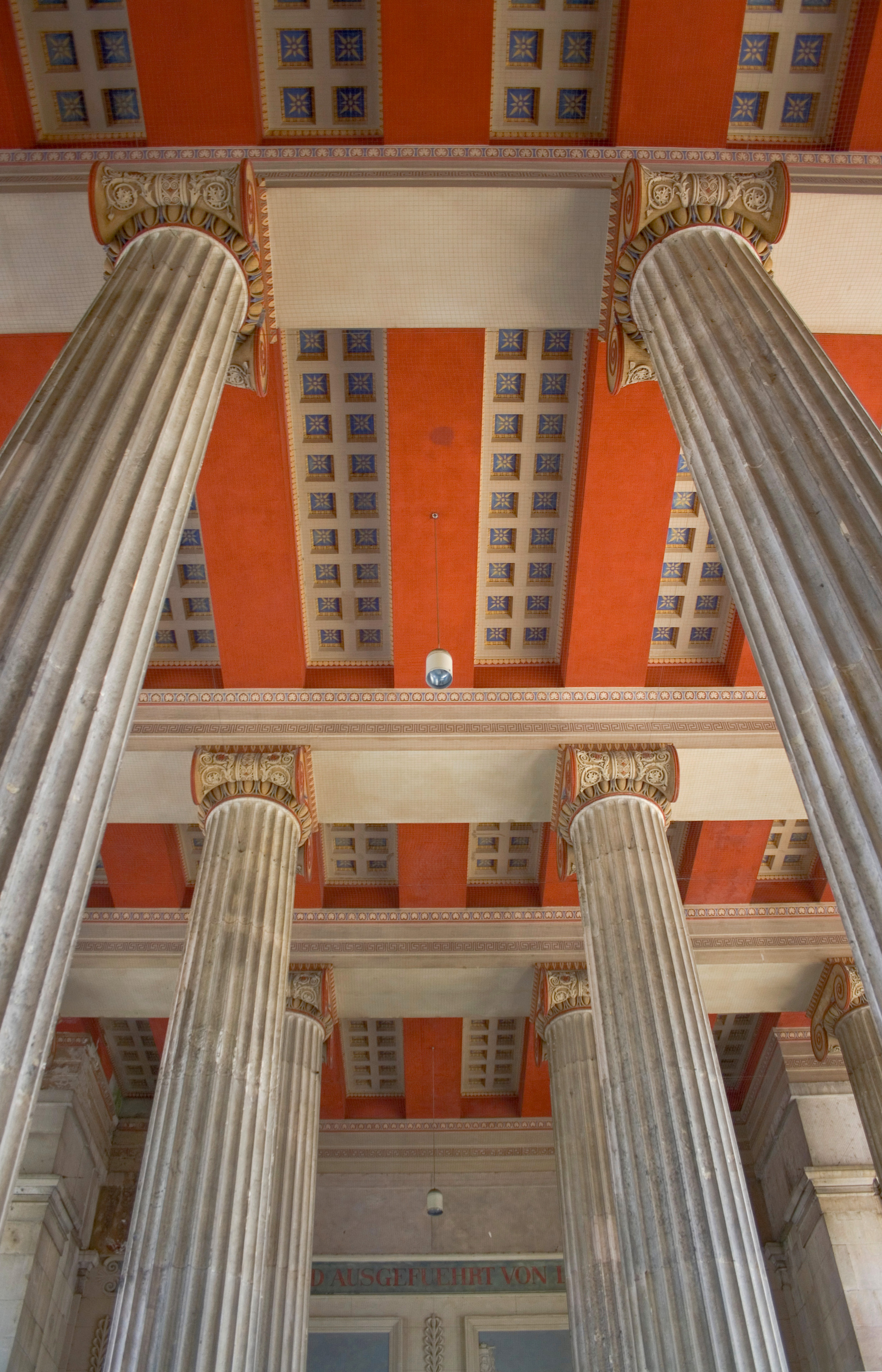 Propyläen, Königsplatz, Munich, Germany